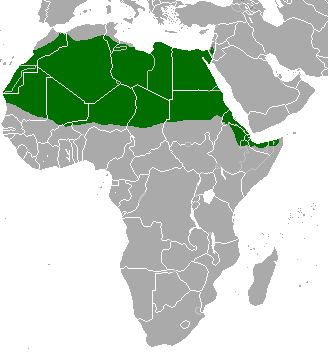 Range map of the Dorcas gazelle (Gazella dorcas) according to Jonathan Kingdon: The Kingdon Field Guide to African Mammals. A&C Black Publishers, London 1997 [2007], ISBN 978-0-7136-6513-0 (476 Seiten). IUCN SSC Antelope Specialist Group 2008. Gazella dorcas. In: IUCN 2011. IUCN Red List of Threatened Species. Version 2011.1. . Downloaded on 13 July 2011. Source=Base map derived from File:BlankMap-World.png.